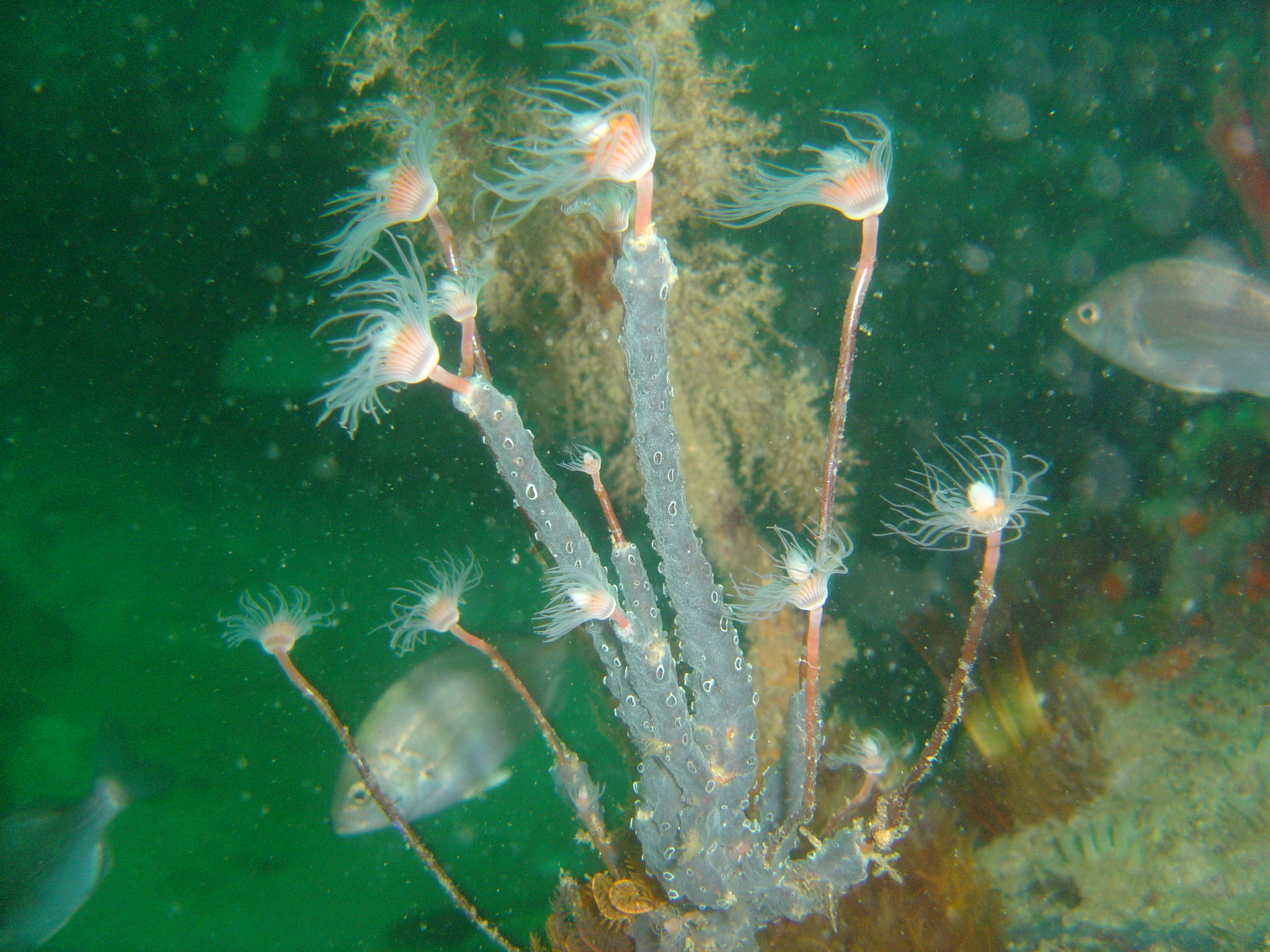 Rooi-els, Western Cape.